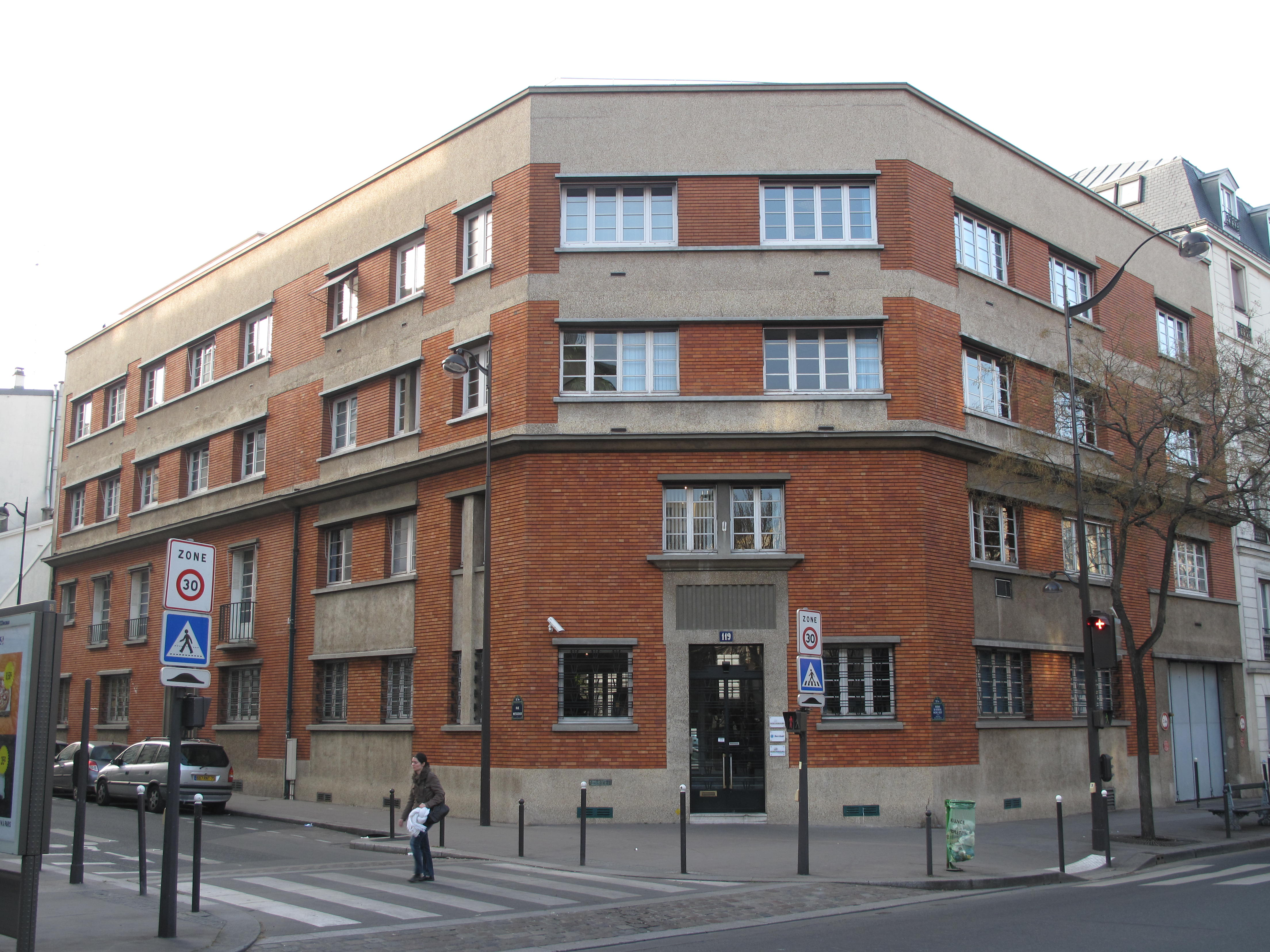 The building of 117 avenue Michel Bizot, Paris 12th arrond. Head office of company Derichebourg